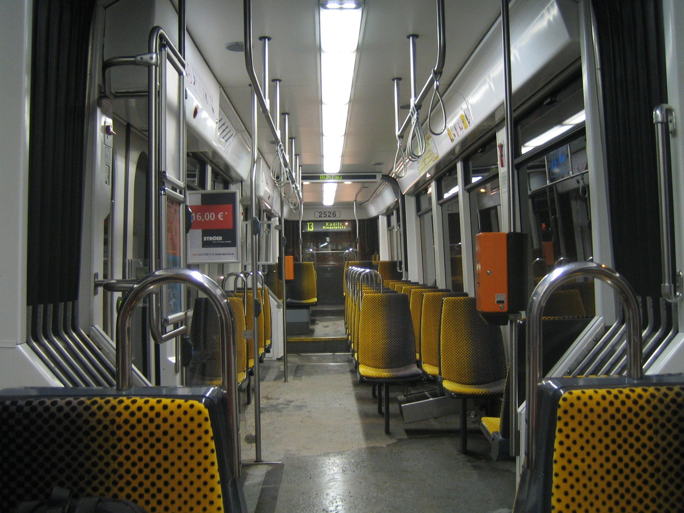 Low-floor tram NGT6DD of the Dresden Transport Authorities - interior